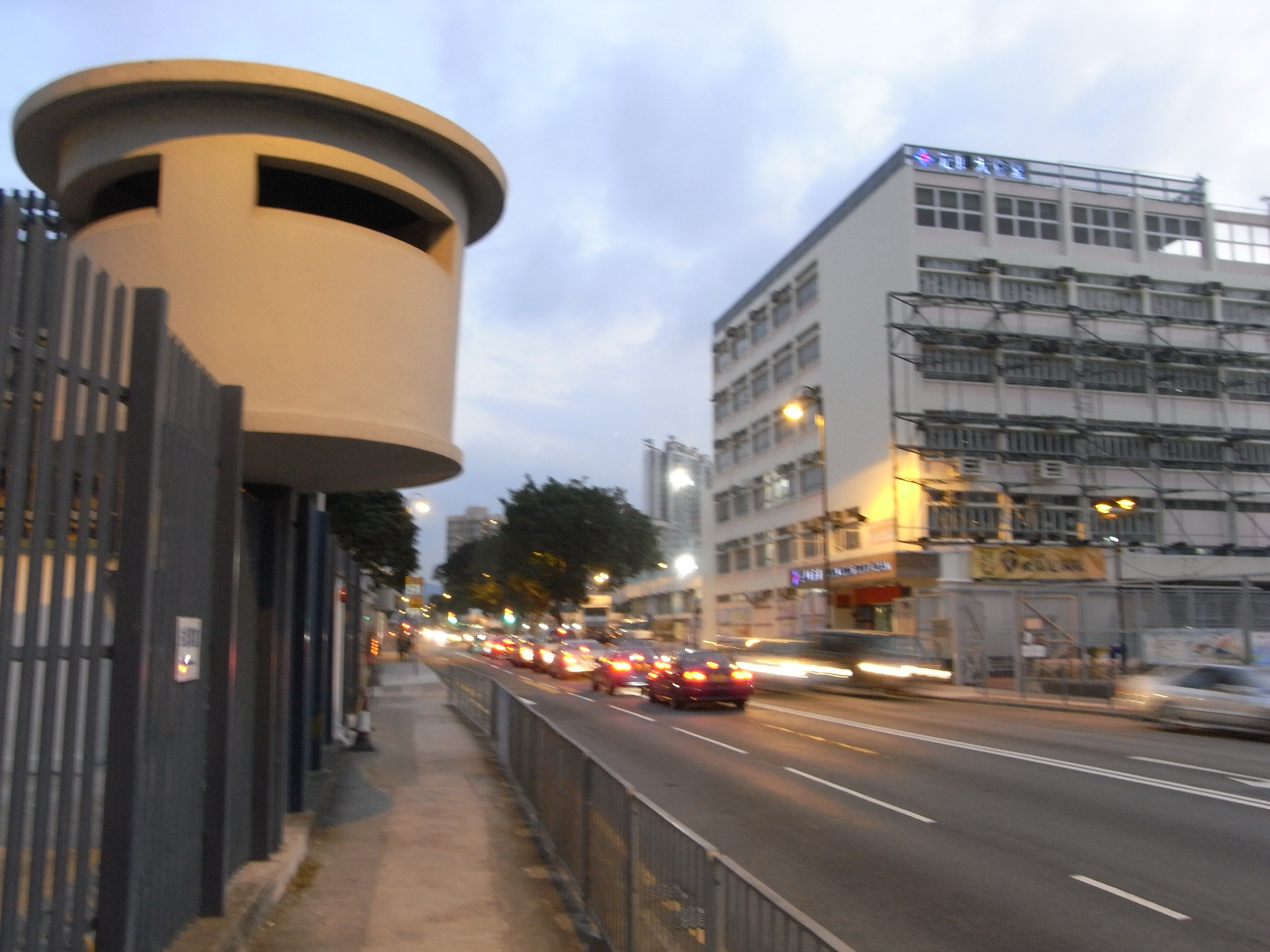 元朗 元朗體育路 元朗警署 & 元朗大會堂 黃昏時段